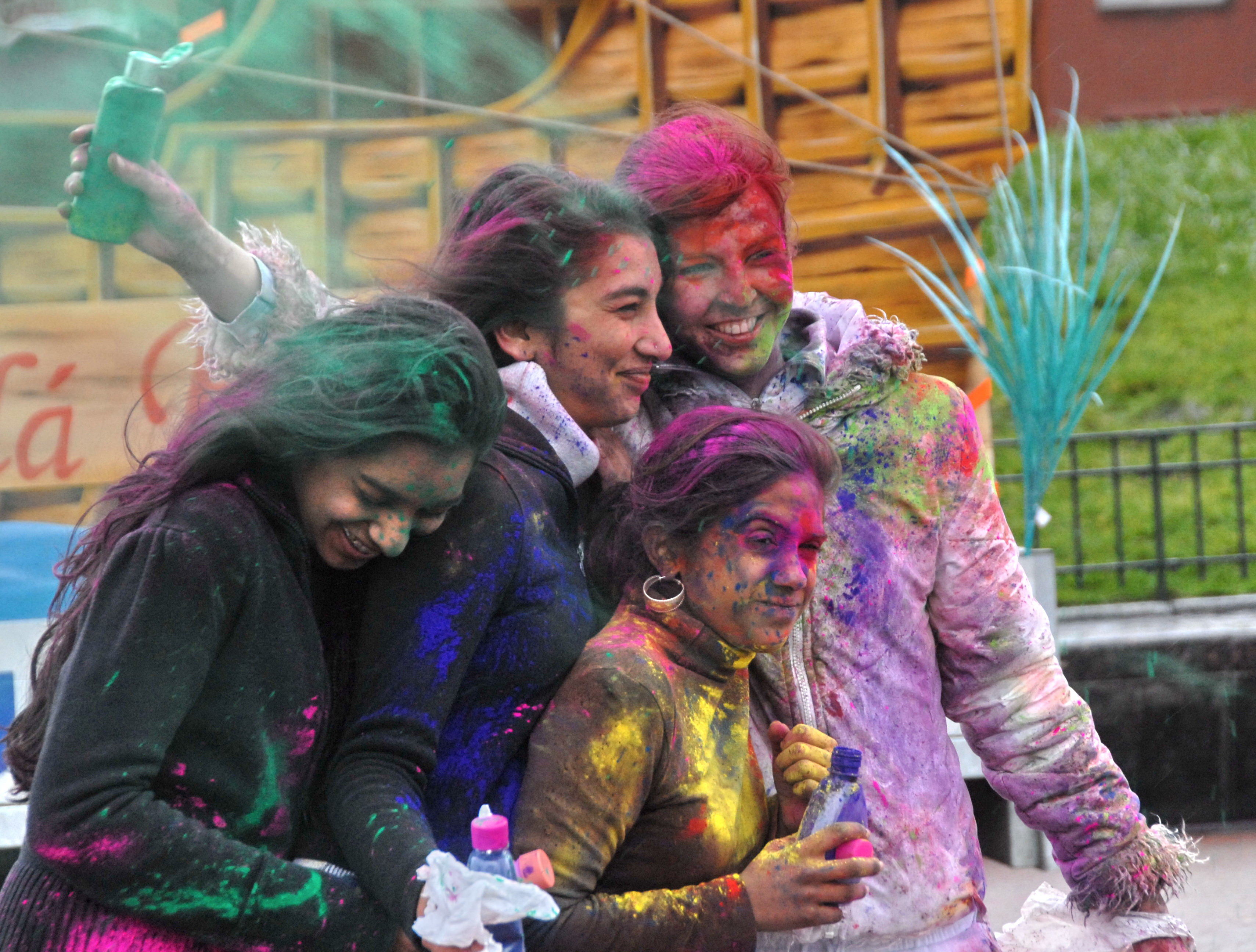 Holifeest in Transvaal, Den Haag. Het Holifeest, Holi-Phagwa of gewoon ‘Phagwa, Phagawa’, is een Hindoestaans feest dat jaarlijks gevierd wordt en een combinatie is van een lentefeest, verlossingsfeest en een nieuwjaarsfeest. Het holifeest kenmerkt zich door culturele dans en zang en het strooien met gekleurd poeder en parfum (Goellaal en Abier). Holi (Hindi: होली), or Phagwa (Bhojpuri), also called the Festival of Colours, is a popular Hindu spring festival observed in India and Nepal. In West Bengal, it is known as Dolyatra (Doljatra) or Boshonto Utsav ("spring festival"). On the second day, known as Dhulhendi, people spend the day throwing colored powder and water at each other. The spring season, during which the weather changes, is believed to cause viral fever and cold. Thus, the playful throwing of the colored powders has a medicinal significance: the colors are traditionally made of Neem, Kumkum, Haldi, Bilva, and other medicinal herbs prescribed by Āyurvedic doctors.